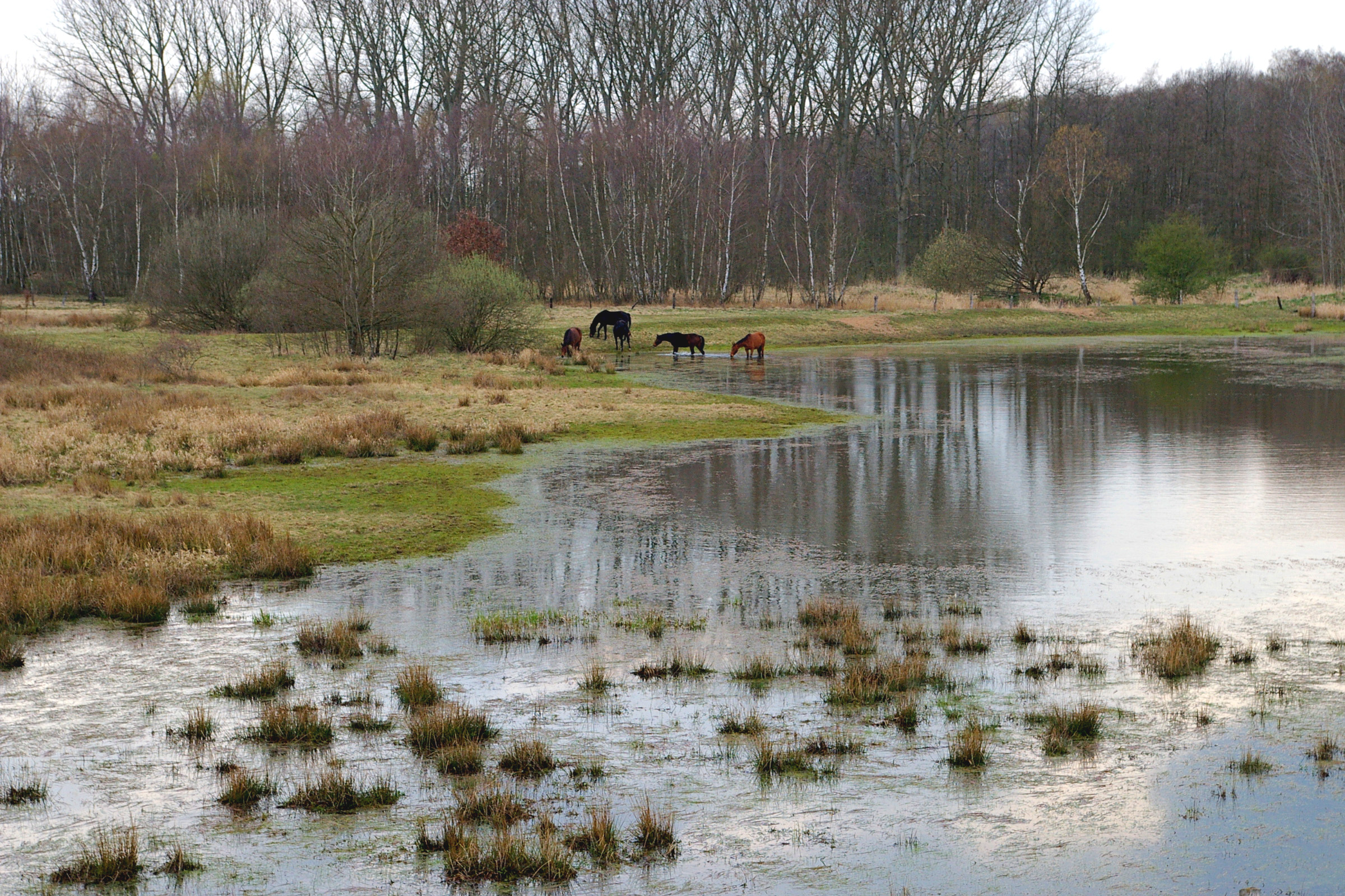 Wet meadow landscape at the Elbe River in northern Germany.